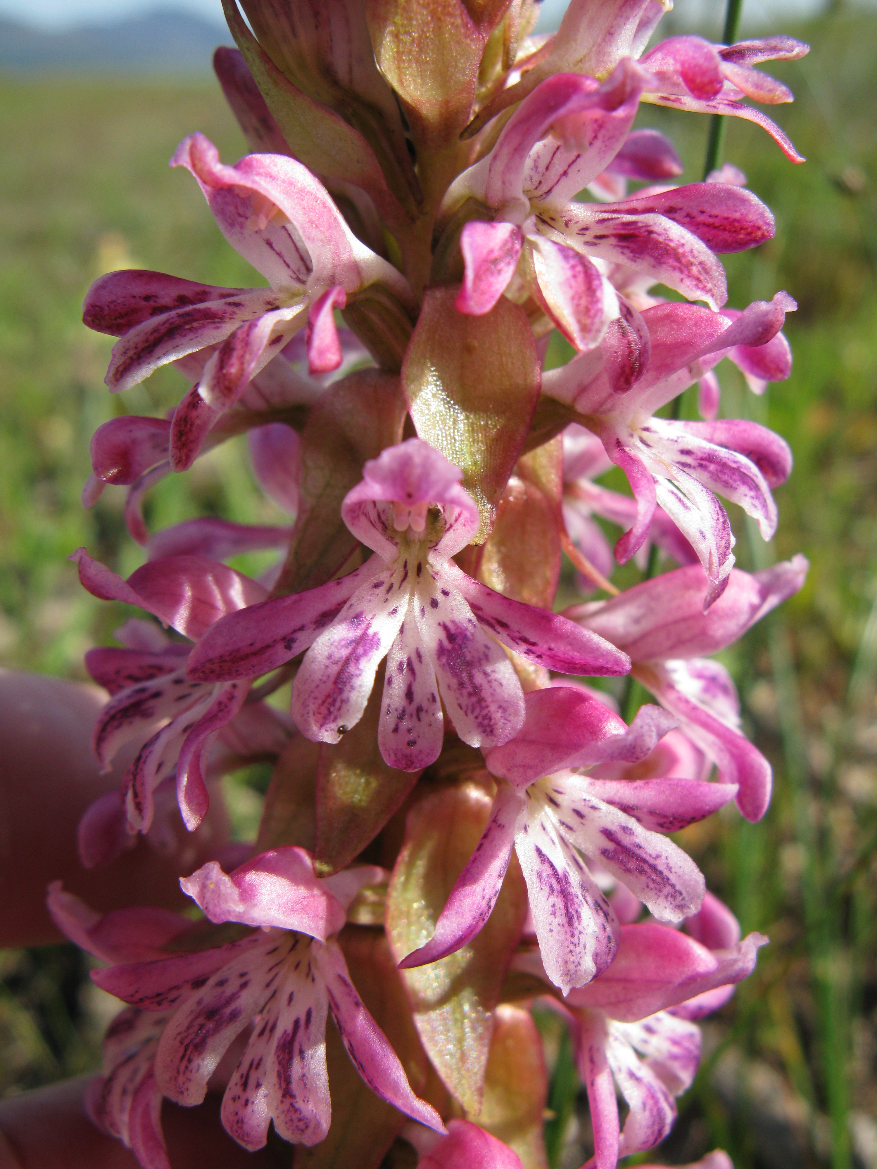 Satyrium erectum is a pink-flowered species with spotted petals. It is endemic to the Western Cape of South Africa. Unofficial Afrikaans common name Pienktrewwa Satyrium is a genus of some 90 species of ground orchids, mainly African.